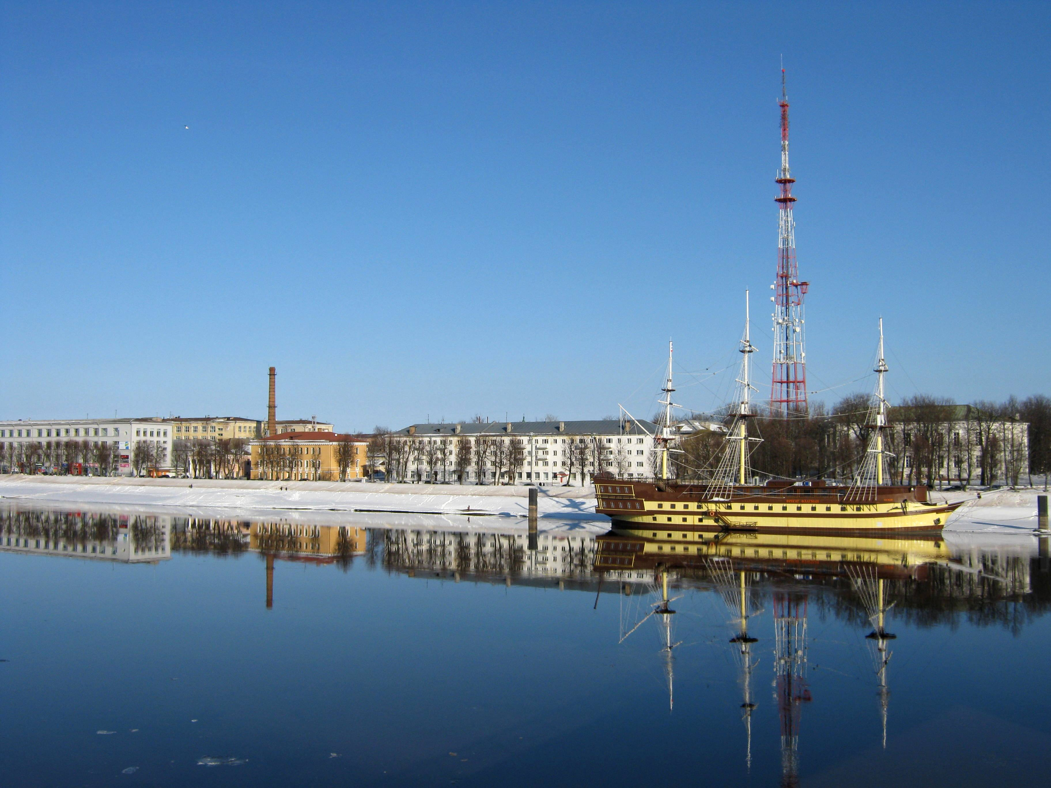 View of river Volkhov in Veliky Novgorod, seen from the kremlin, toward the market side including the telecom tower and the old sailing ship.